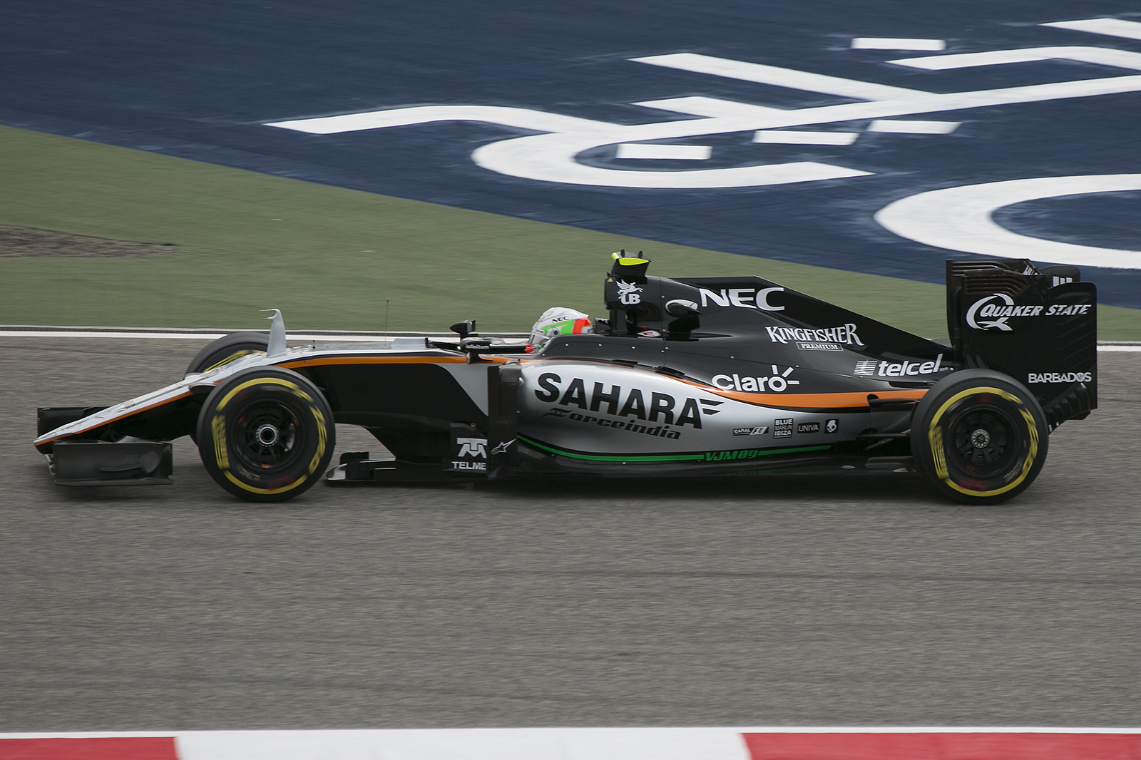 Alfonso Celis Jr. at the 2016 Bahrain Grand Prix